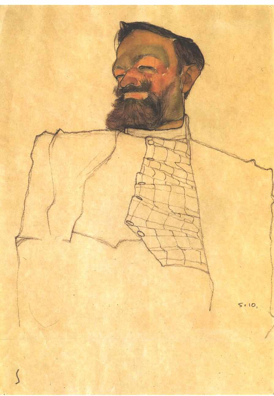 Portrait of Carl Reininghaus